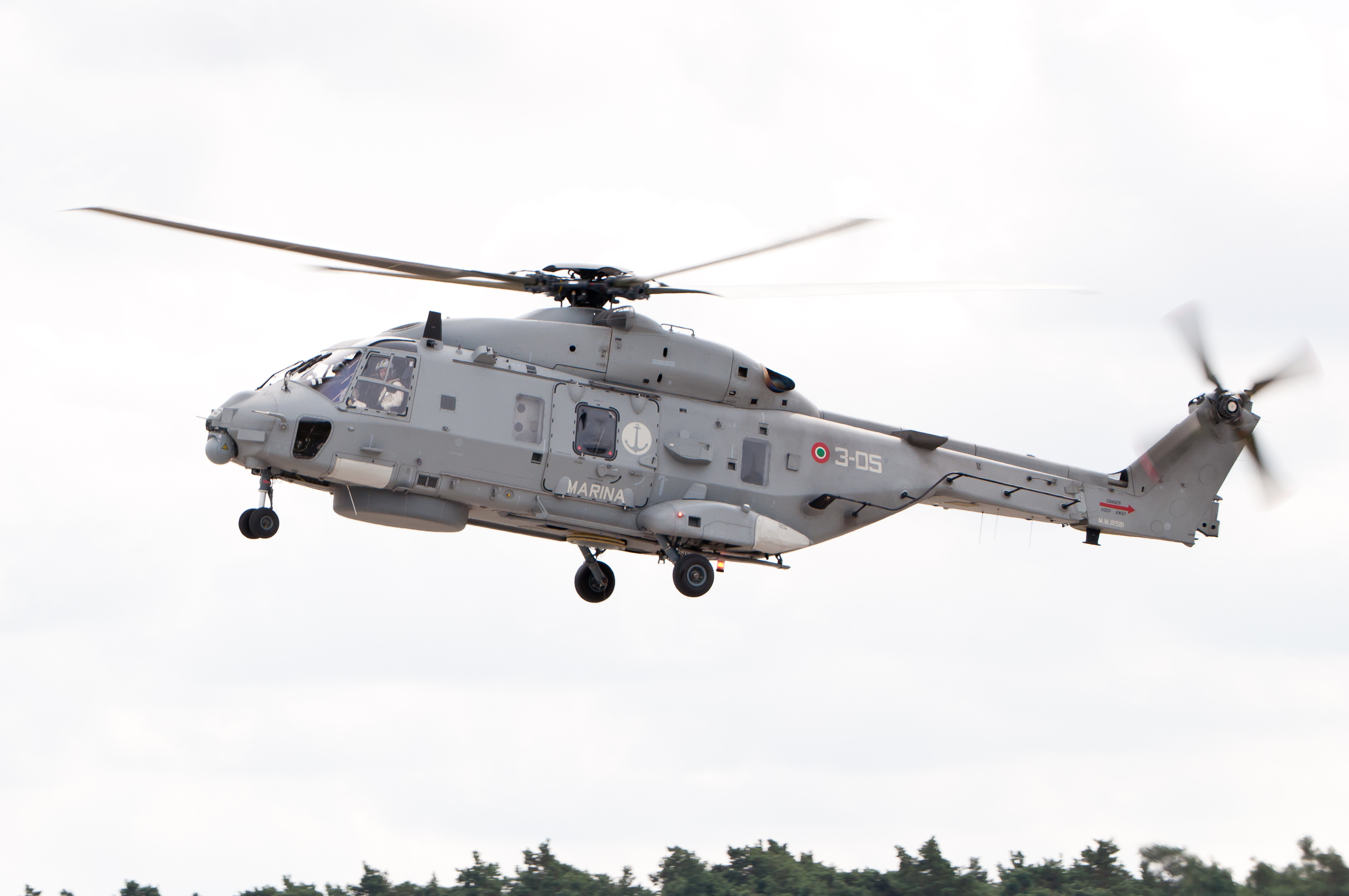 NH Industries NH-90 NFH (cn 1042, reg. MM81581) belonging to the Italian Navy, flying a display at ILA Berlin Air Show 2012.